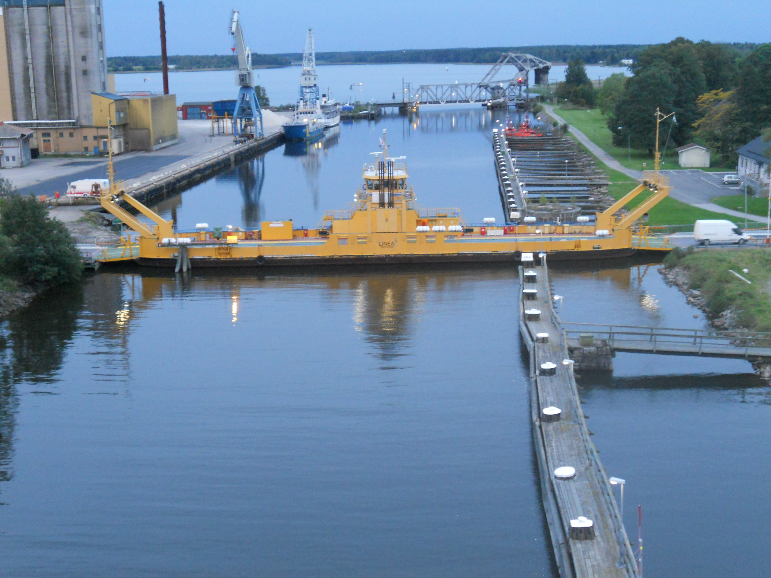 Car ferry Linea used as a temporary bridge in Vänersborg, Sweden